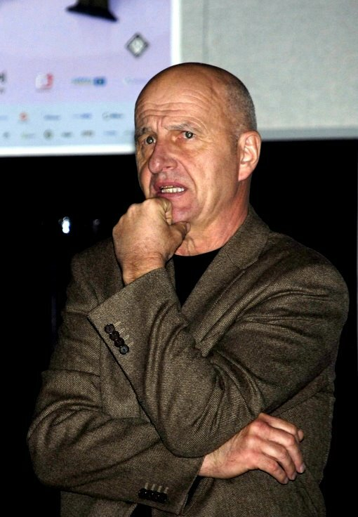 Publicist. writer and journalist Ondřej Neff suported inception of hospice in Liberec Region by discuss evening.